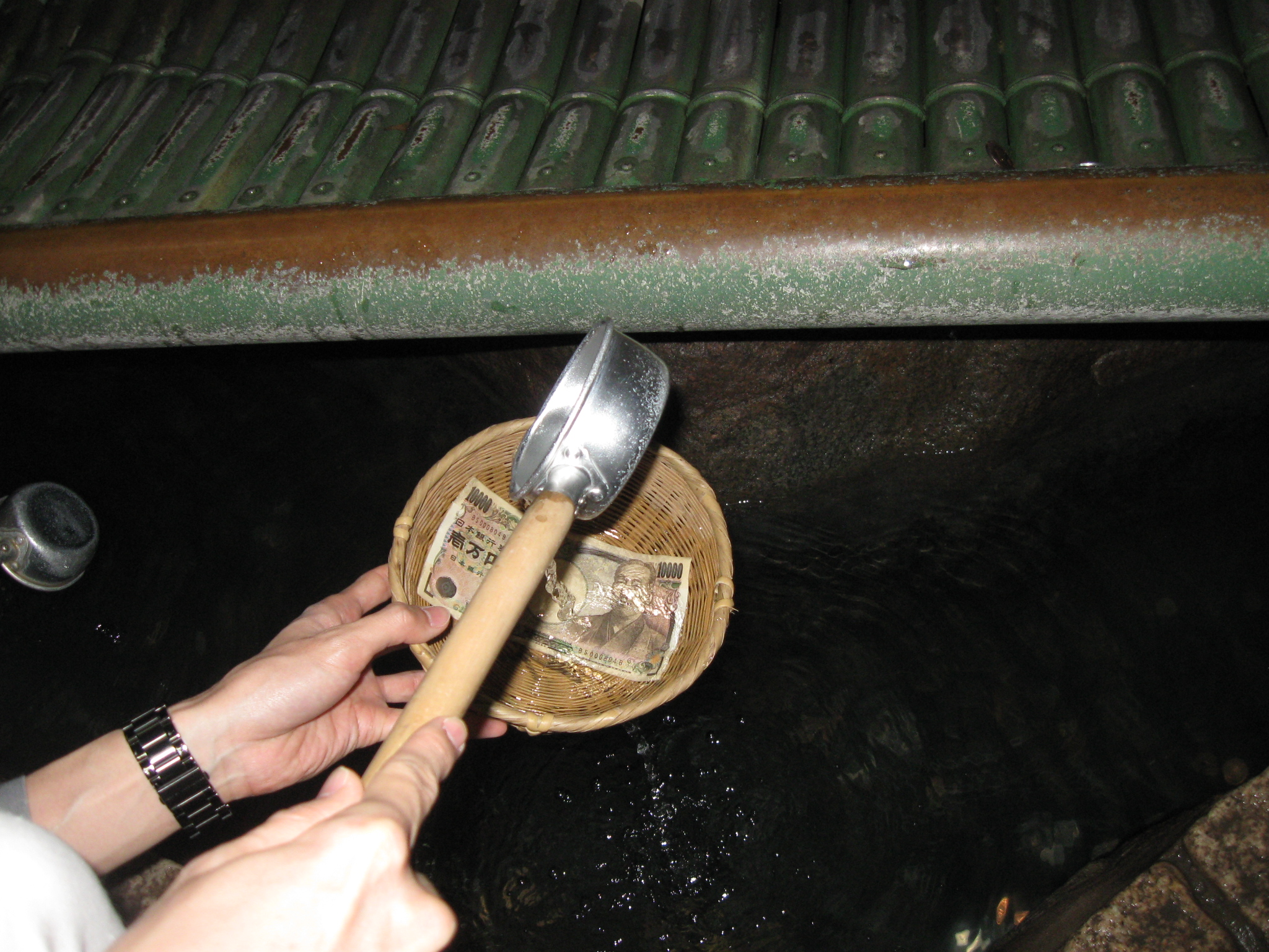 Money washing at Zeniarai Benten Kamakura